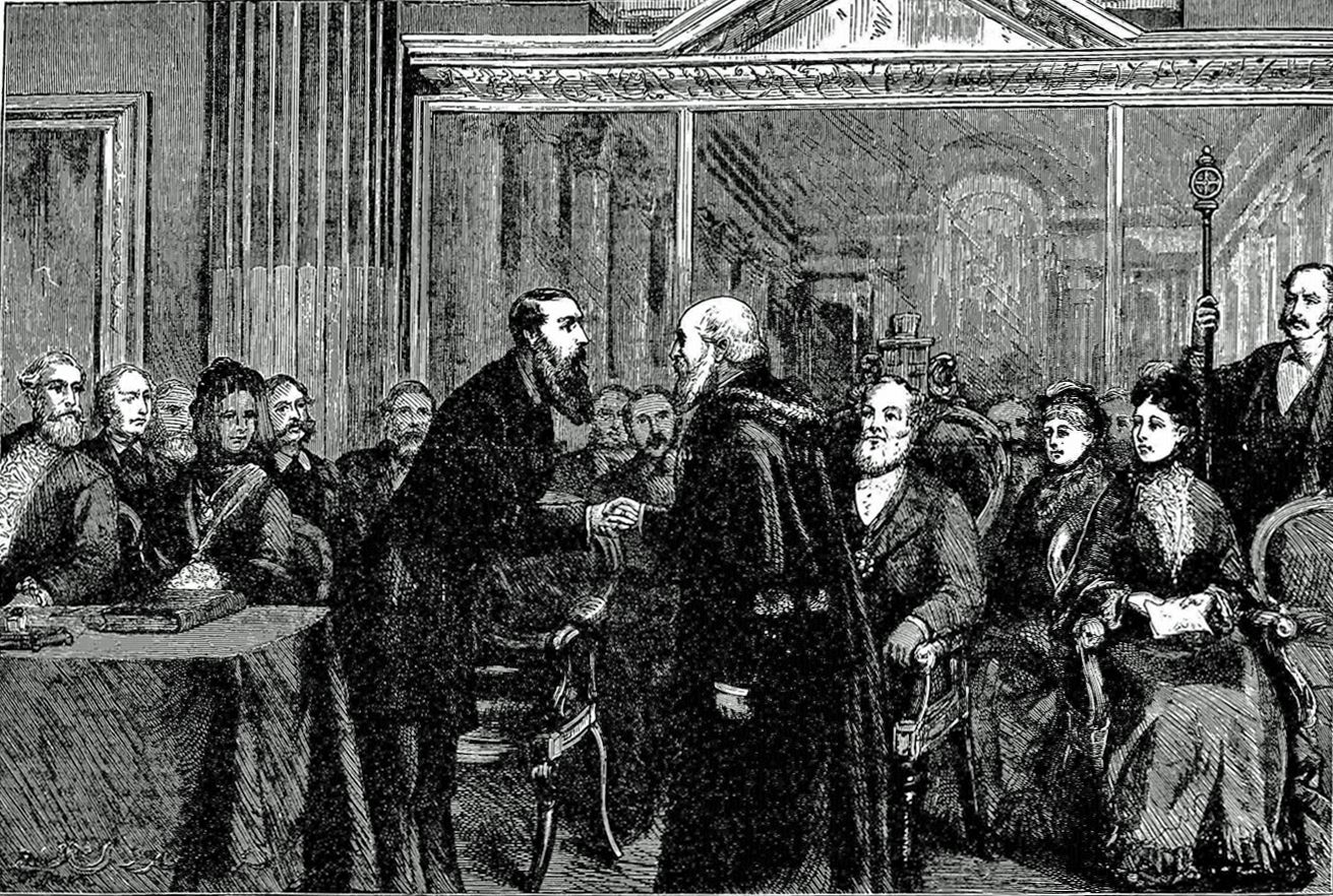 King Leopold II of Belgium, a keen amateur turner, is shown receiving the Freedom of the Turners' Company in London in 1879